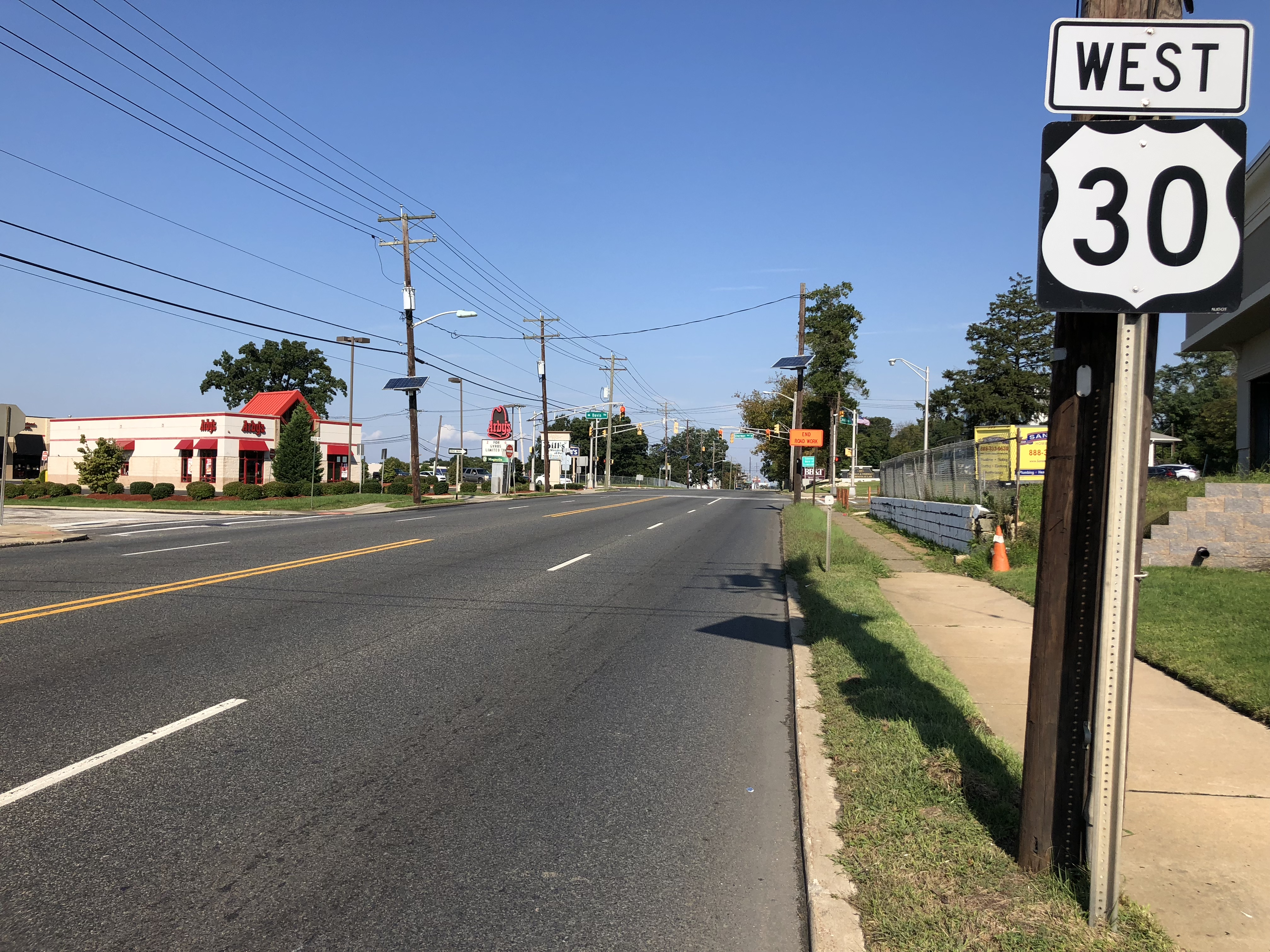 View west along U.S. Route 30 (White Horse Pike) at Hurlock Avenue in Magnolia, Camden County, New Jersey